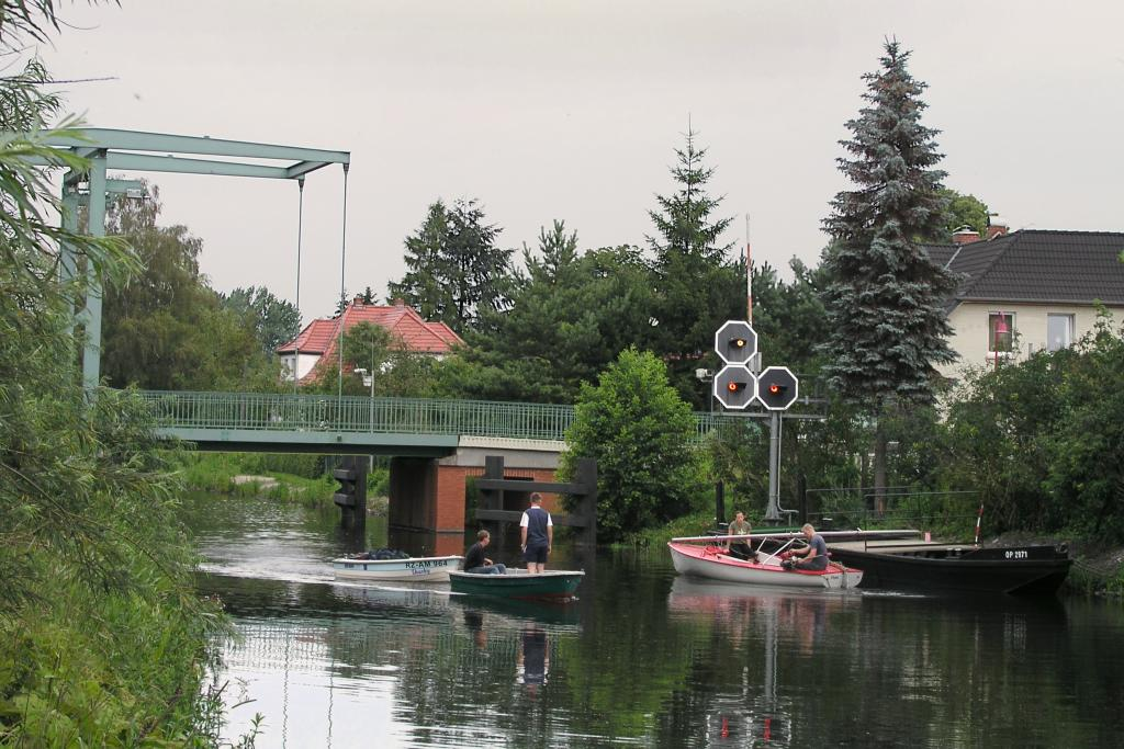 Plate, Mecklenburg, Germany: Stör-channel, photo 2004